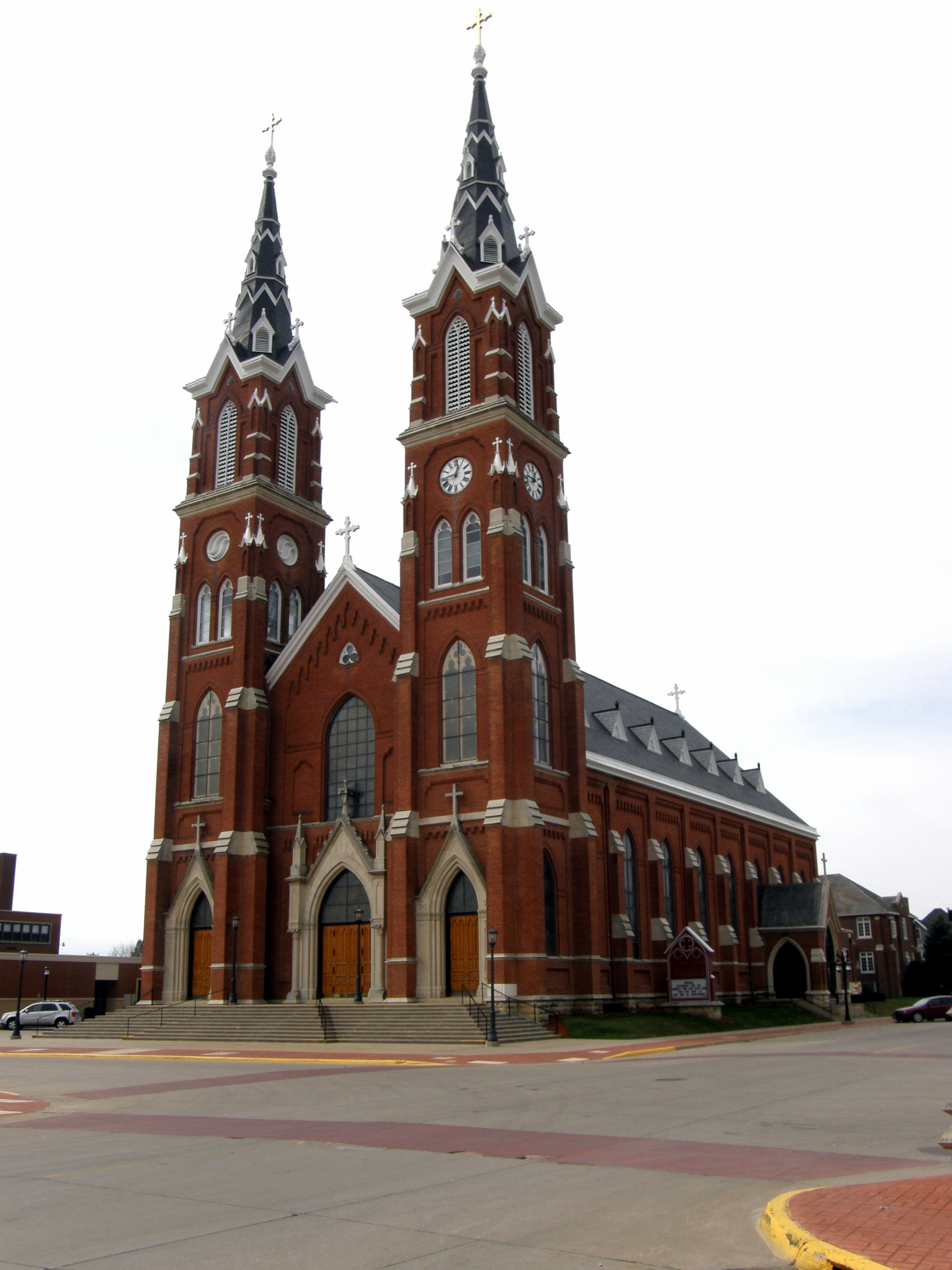 Basilica of Saint Francis Xavier (Dyersville, Iowa), exterior